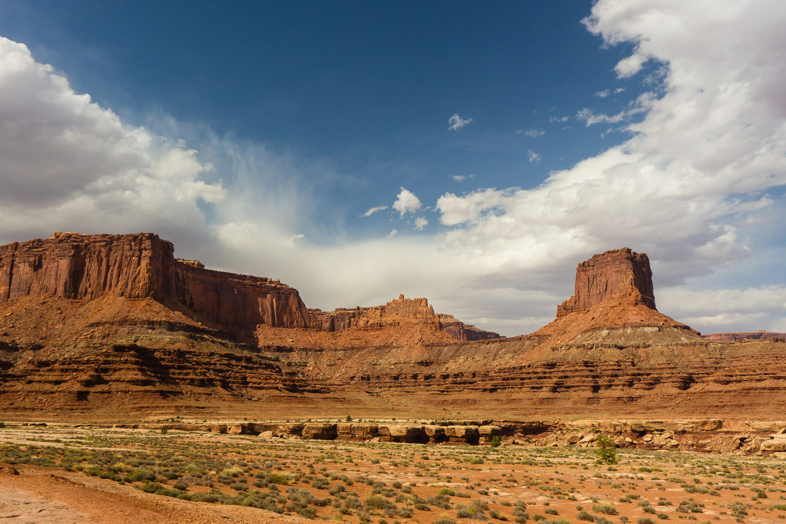 White Rim Road - Day 1, Moab, Utah